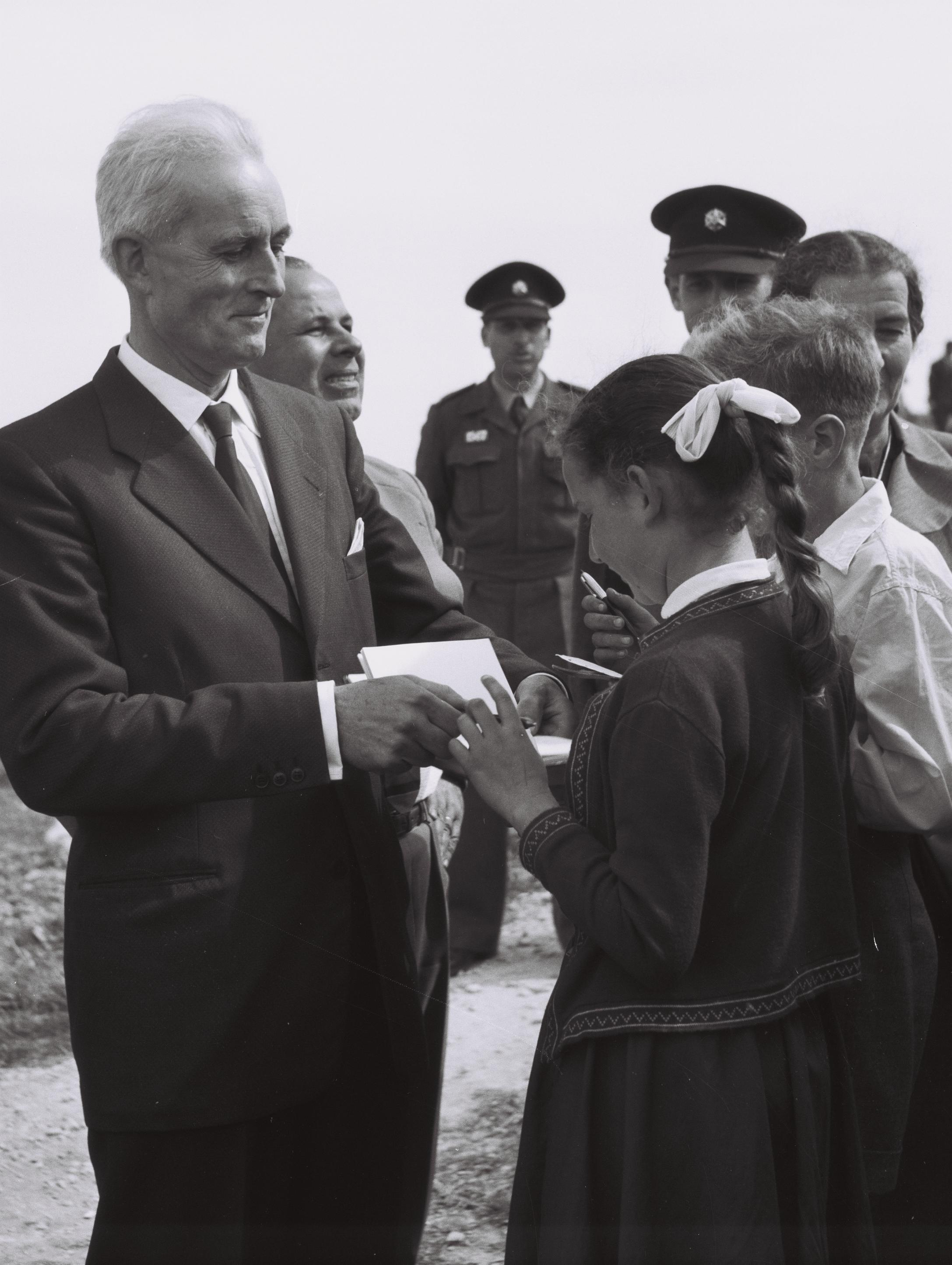 Pierre Eugene Gilbert French Ambassador to Israel, at a tree planting ceremony near Sefad.